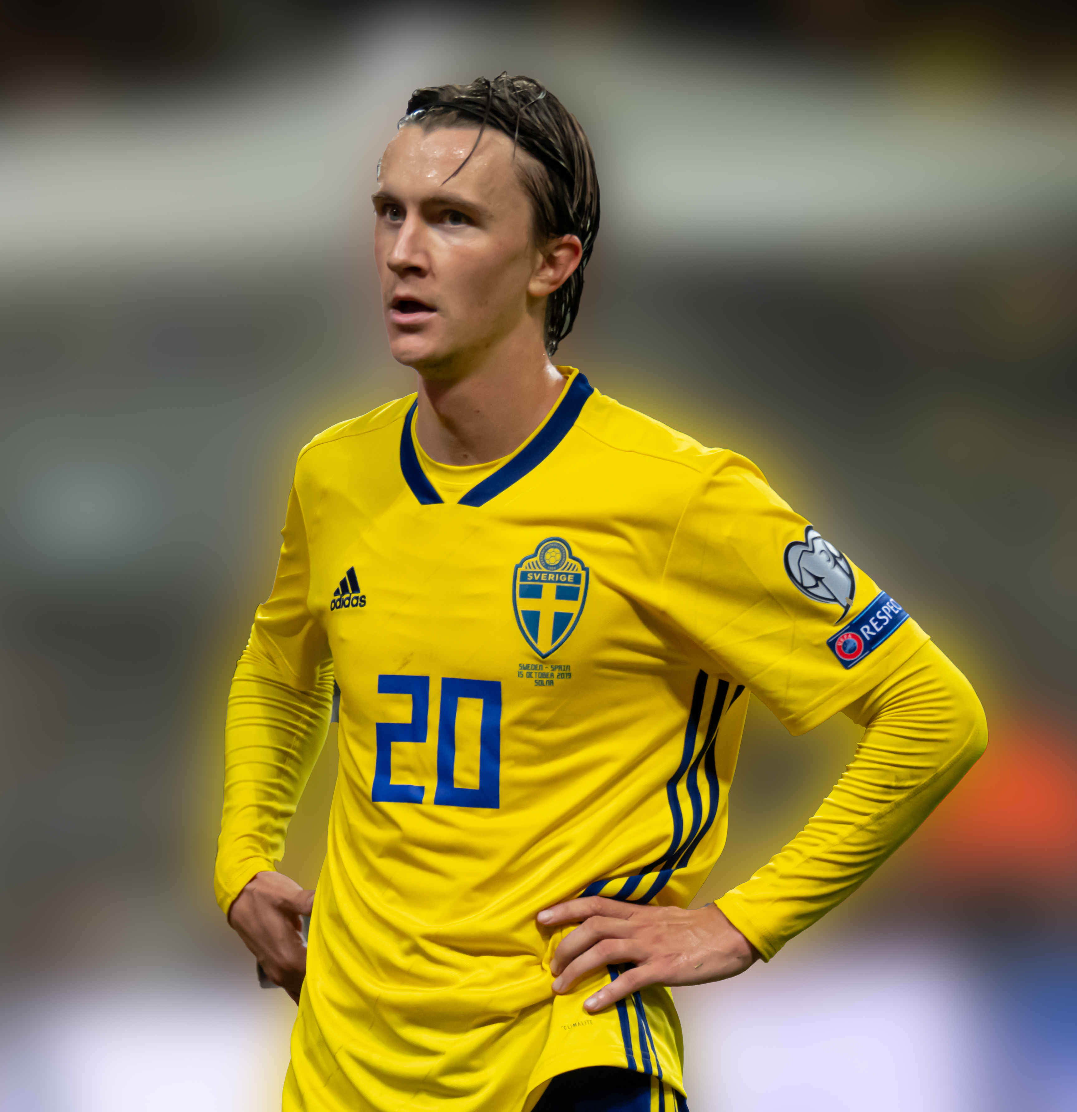 UEFA_EURO_qualifiers_Sweden_vs_Spain_20191015